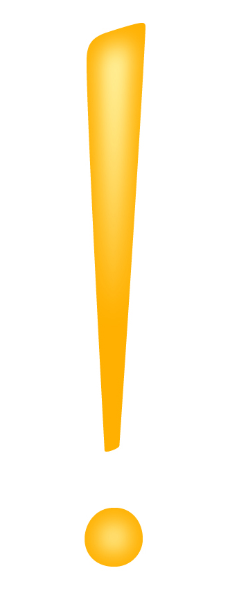 Exclamation Mark image